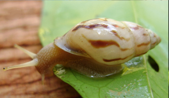 Photo of Drymaeus strigatus.